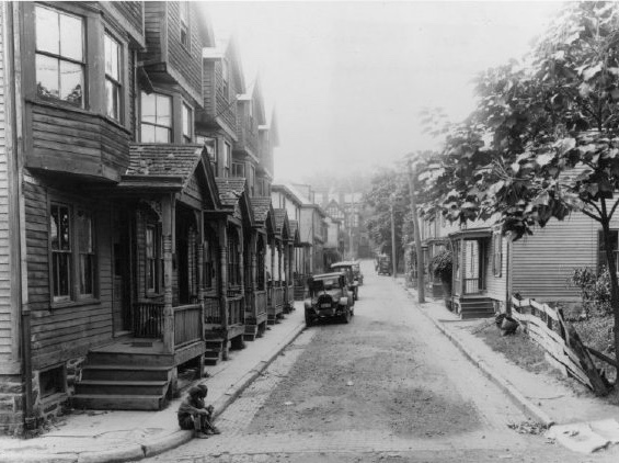 Baker's Alley in Princeton, New Jersey looking south toward Nassau Street c. 1925, a historic African-American neighborhood that was demolished to make way for Palmer Square.